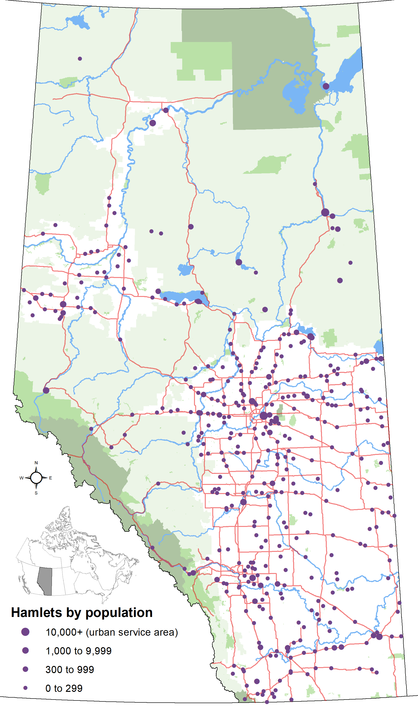 Map showing locations of Alberta's hamlets by population with base reference features (major lakes and rivers, provincial 1-216 highway series, national parks, provincial protected areas and green and white areas).